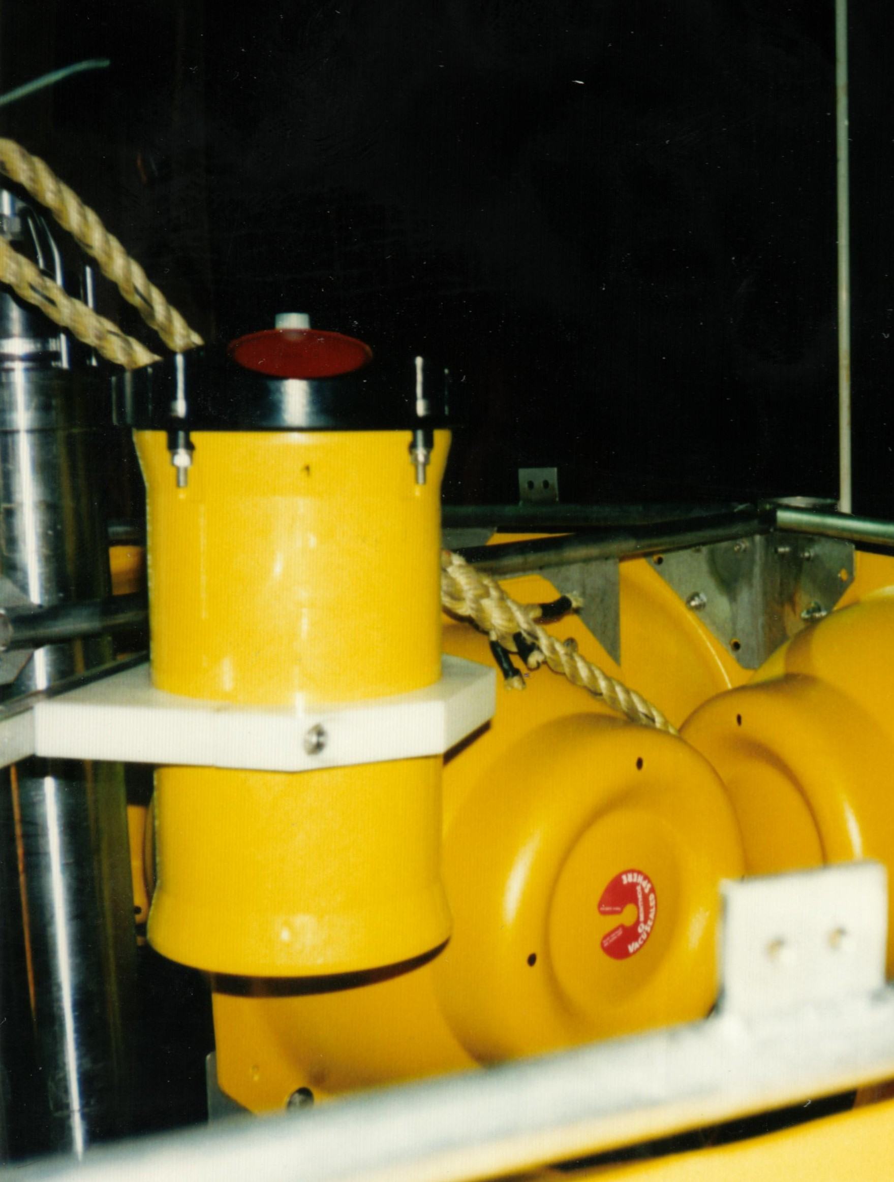 ADCP (Acoustic_Doppler_Current_Profiler) on a platform for deep sea long term observations (RV Sonne cruise SO118)